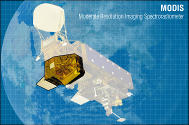 The Moderate Resolution Imaging Spectroradiometer (MODIS), is a 36-band spectroradiometer measuring visible and infrared radiation and obtaining data that are being used to derive products ranging from vegetation, land surface cover, and ocean chlorophyll fluorescence to cloud and aerosol properties, fire occurrence, snow cover on the land, and sea ice cover on the oceans. The first MODIS instrument was launched on board the Terra satellite in December 1999, and the second was launched on Aqua in May 2002